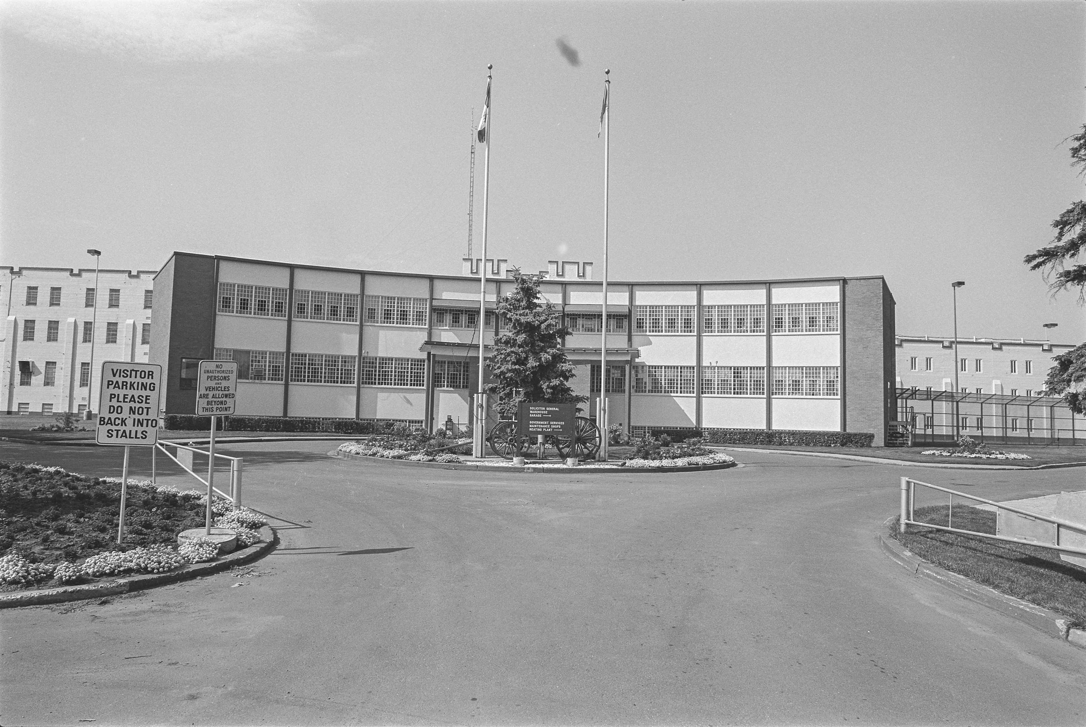 Exterior of the Correctional Centre at Fort Saskatchewan, Alberta.